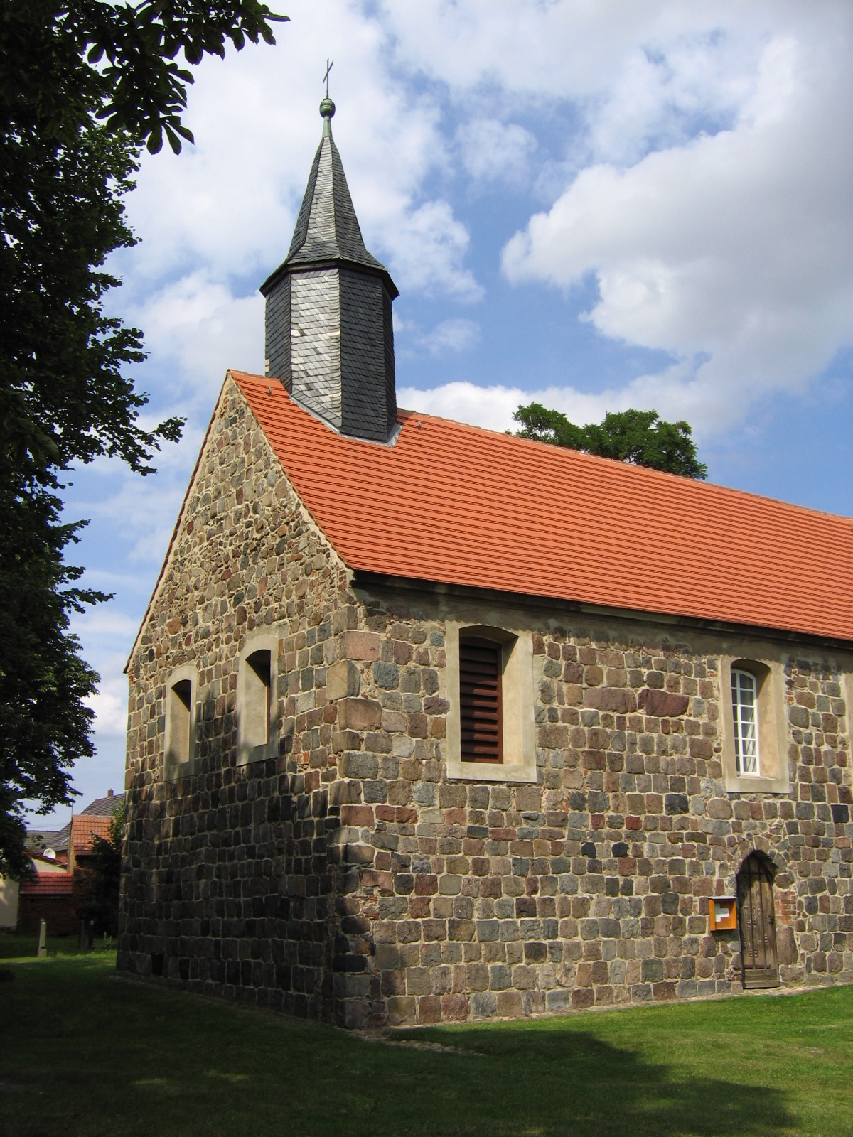 Rural church of Reinsdorf, Gem. Niederer Fläming, Lkr. Teltow-Fläming, Brandenburg, Germany, view from southwest